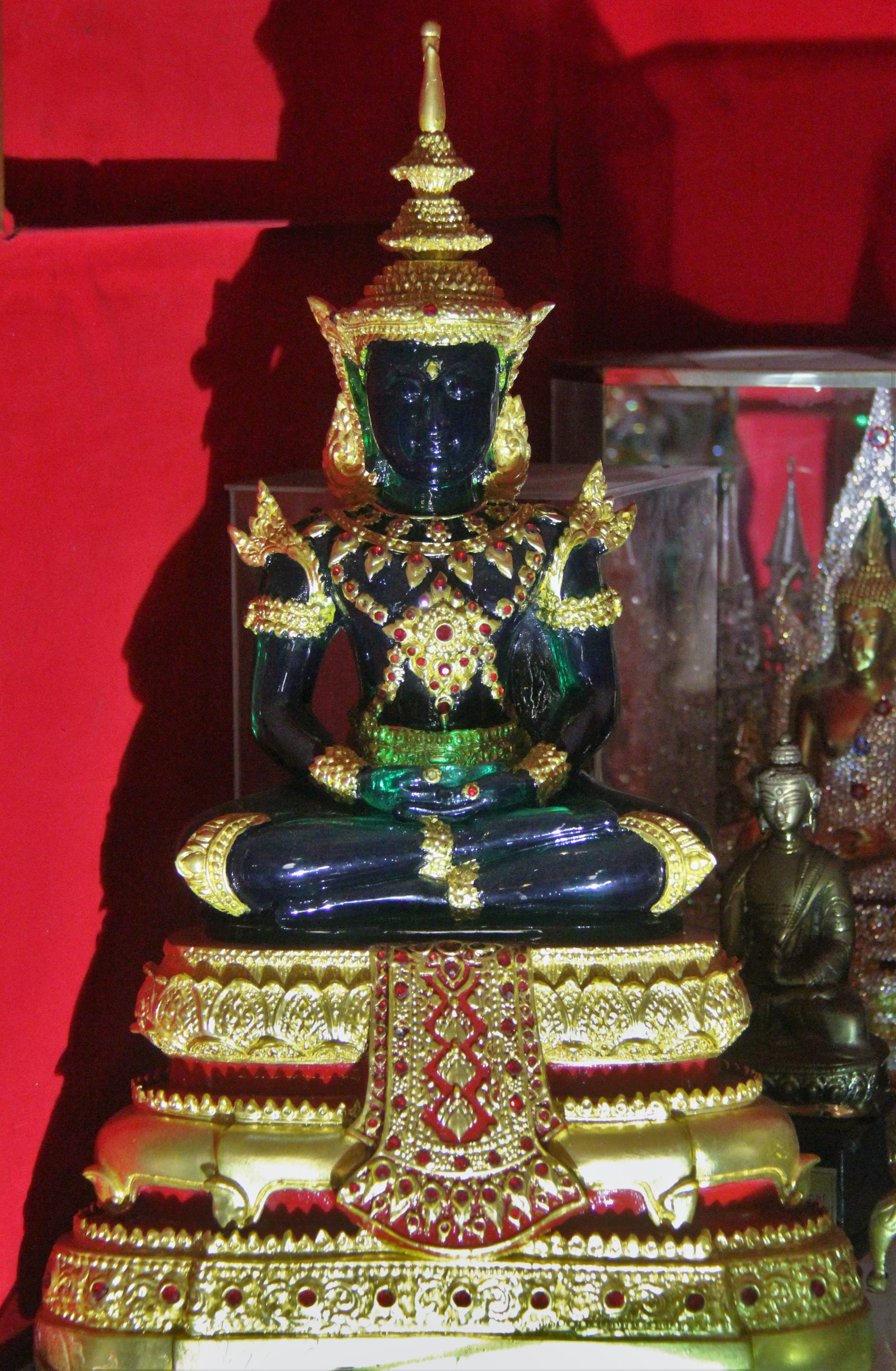 Buddha statue made of Jade. On display at the Gangaramaya Temple in Colombo.